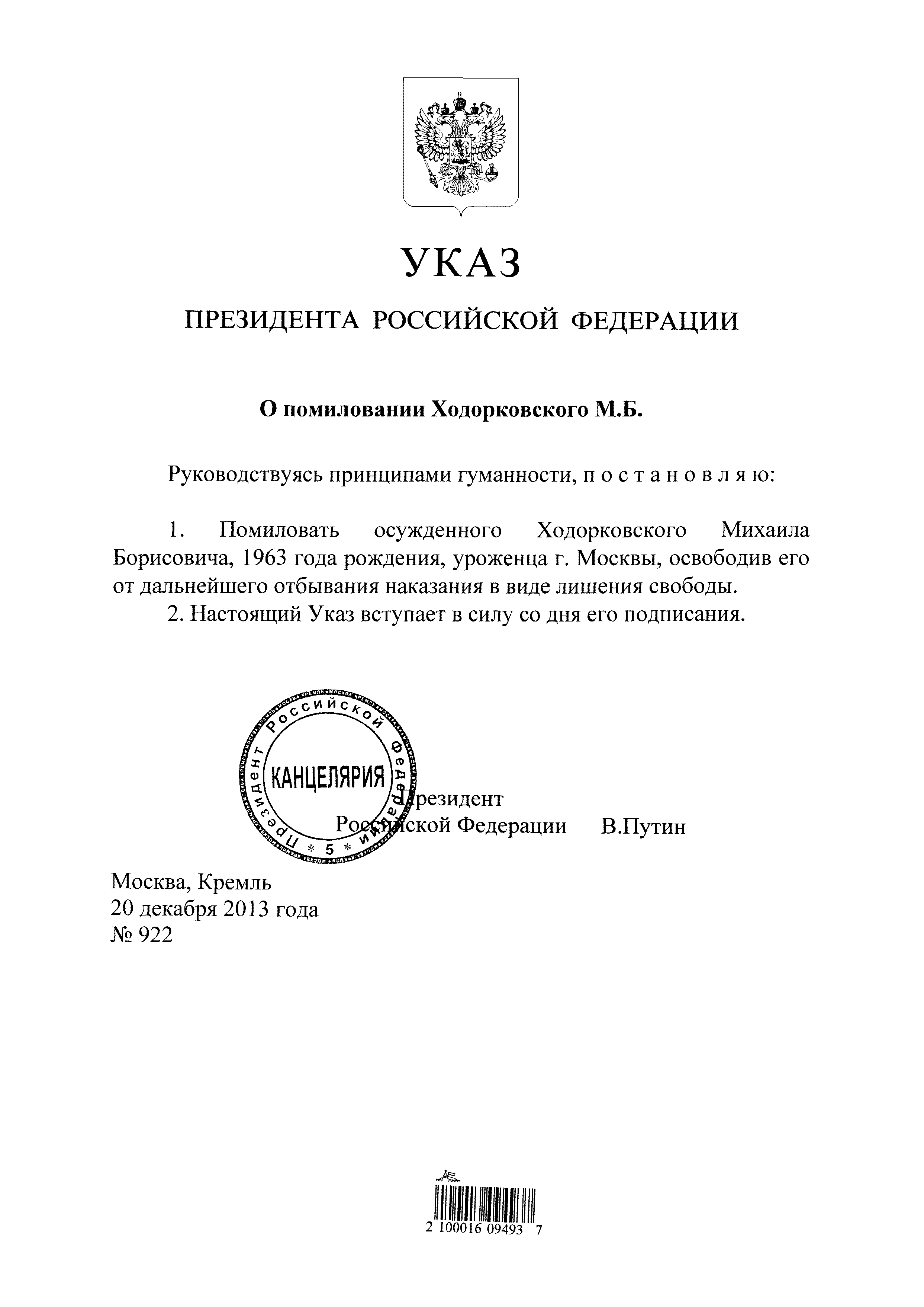 Executive Order On Granting Pardon to Mikhail Khodorkovsky